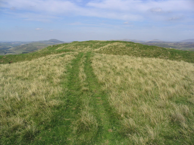 On the ridge of Woden Law. The Iron Age hill fort on Woden Law was taken over by the Romans and used for siege practice and military exercises. Dere Street, a Roman road, runs to the north and east of Woden Law and the nearby Roman marching camp at Pennymuir could house 6000 men.